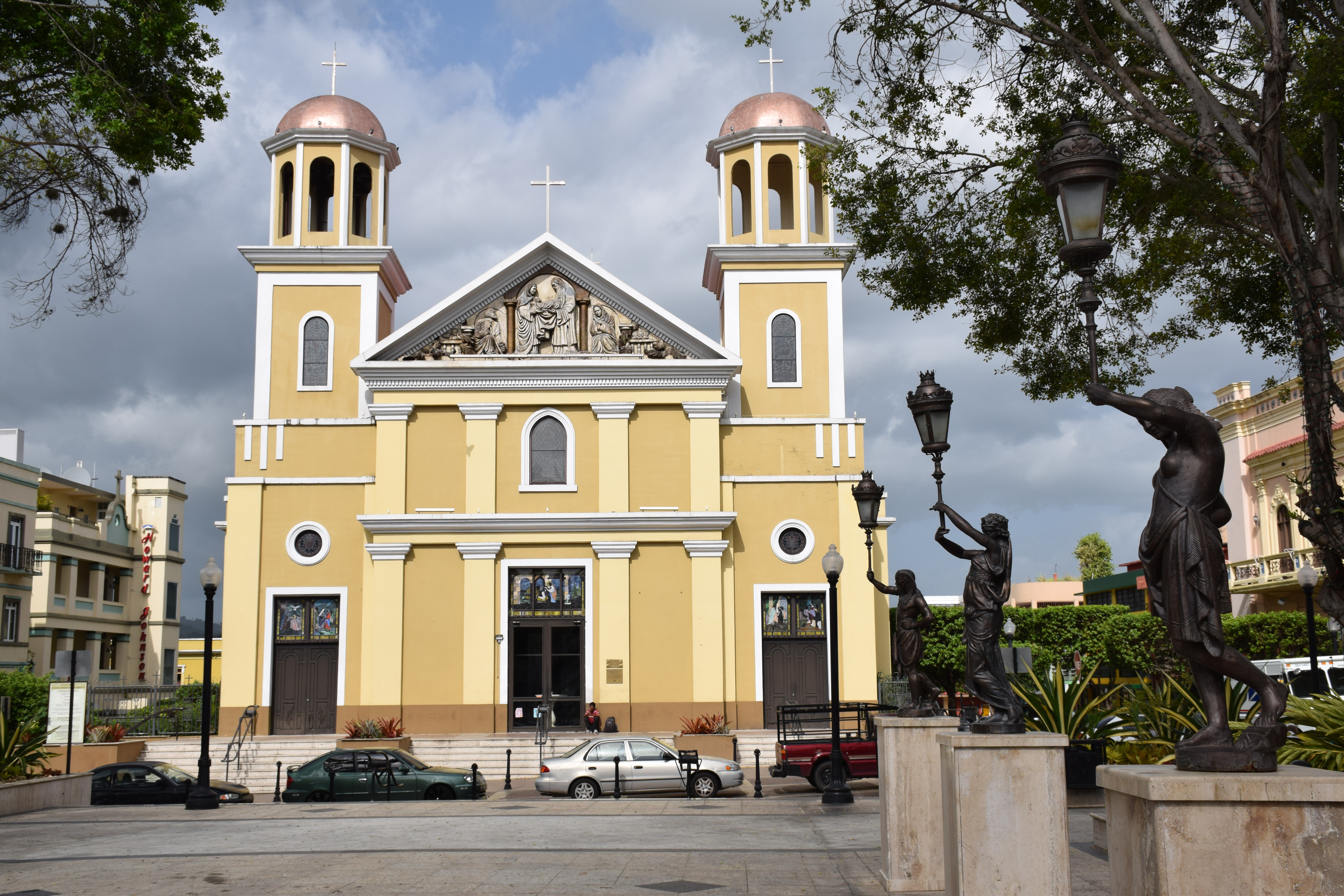 Cathedral of Mayagüez as seen from Plaza Colón, Mayagüez, Puerto Rico.